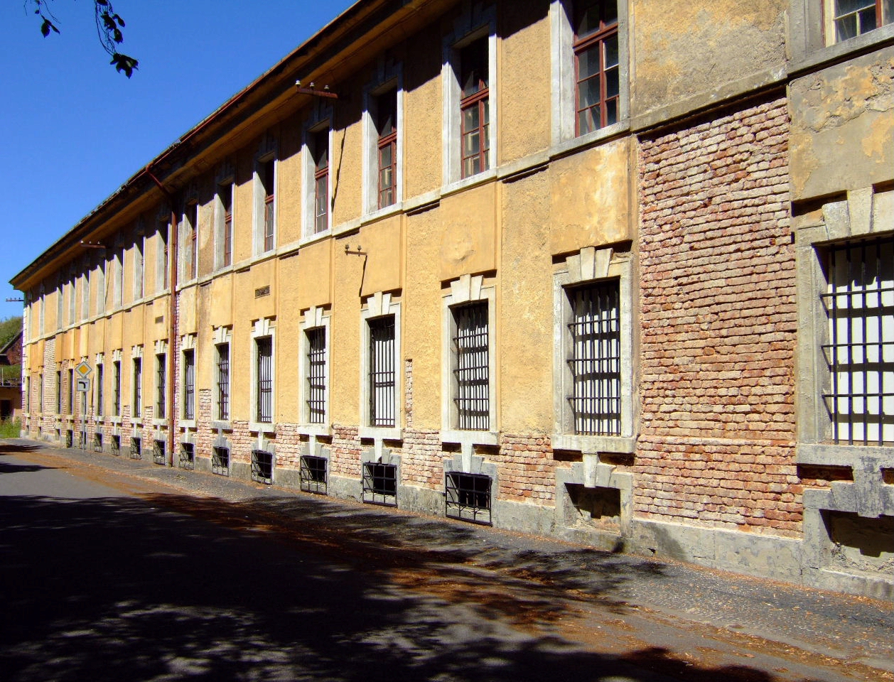 The Bodenbach (Podmokly) Barracks in Terezín.